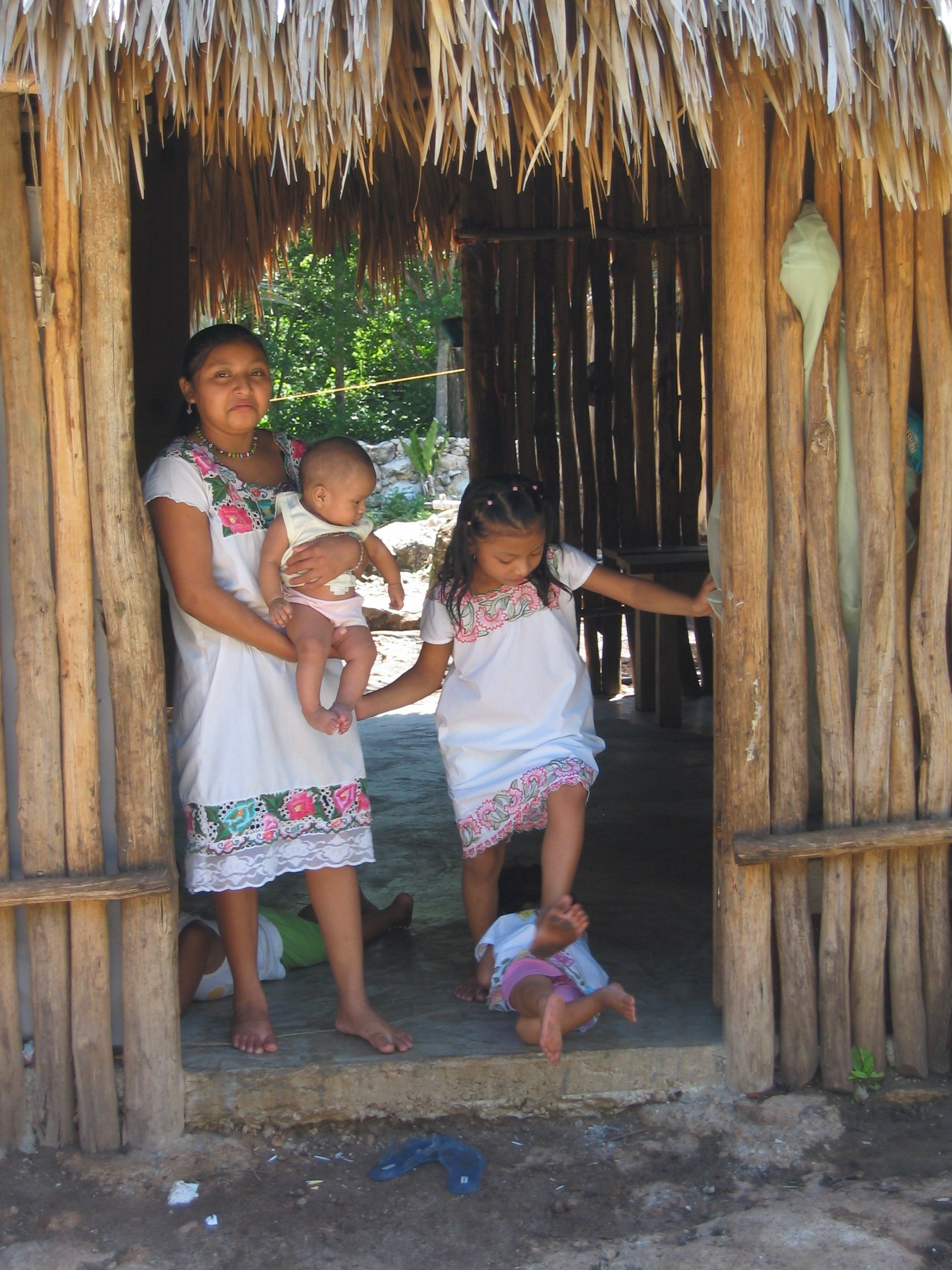 Maya Indigenous - Tankan - Yucatan - México